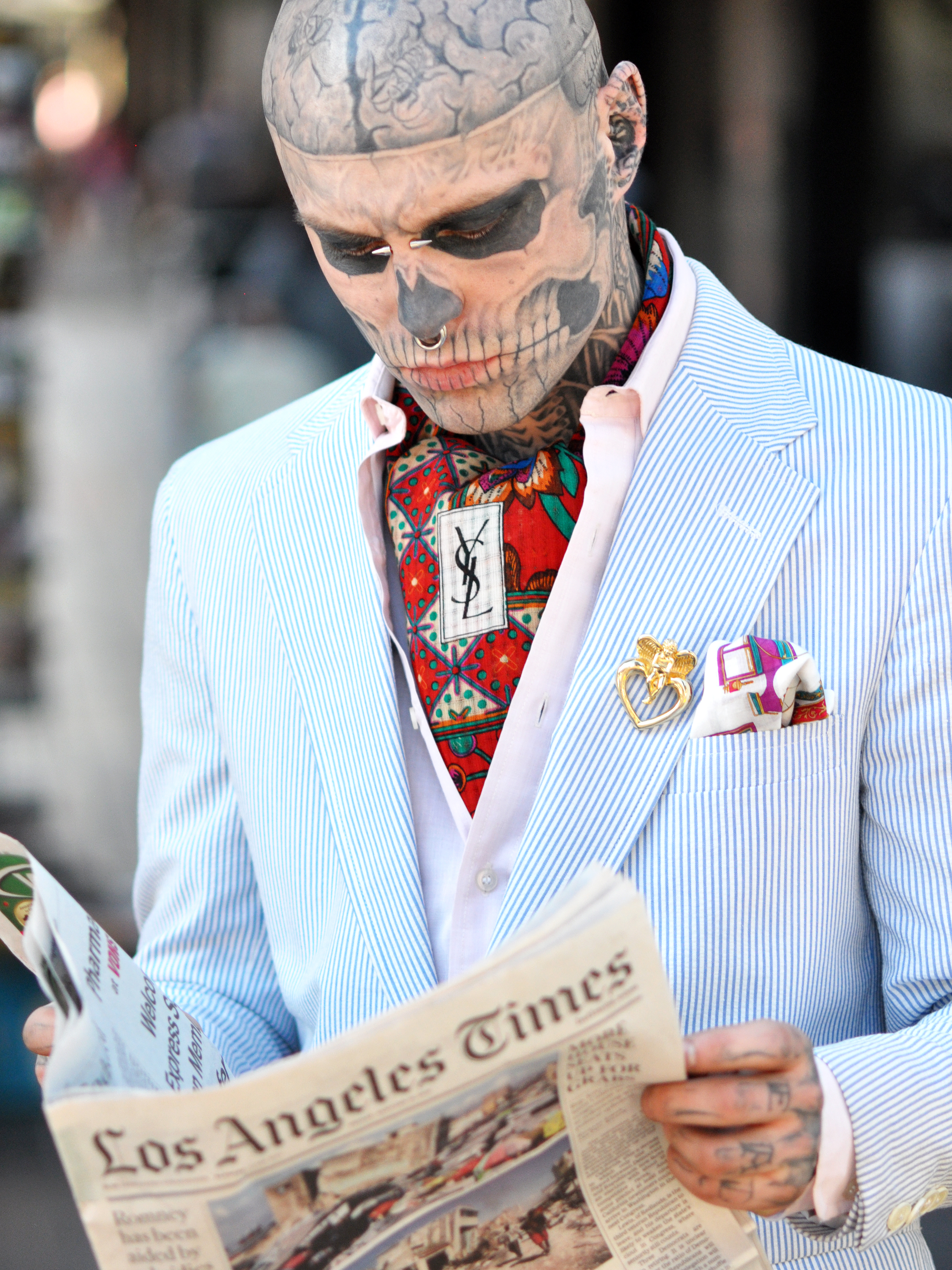 A photo of Rick Genest, aka Zombie Boy, as taken by Colin R. Singer.